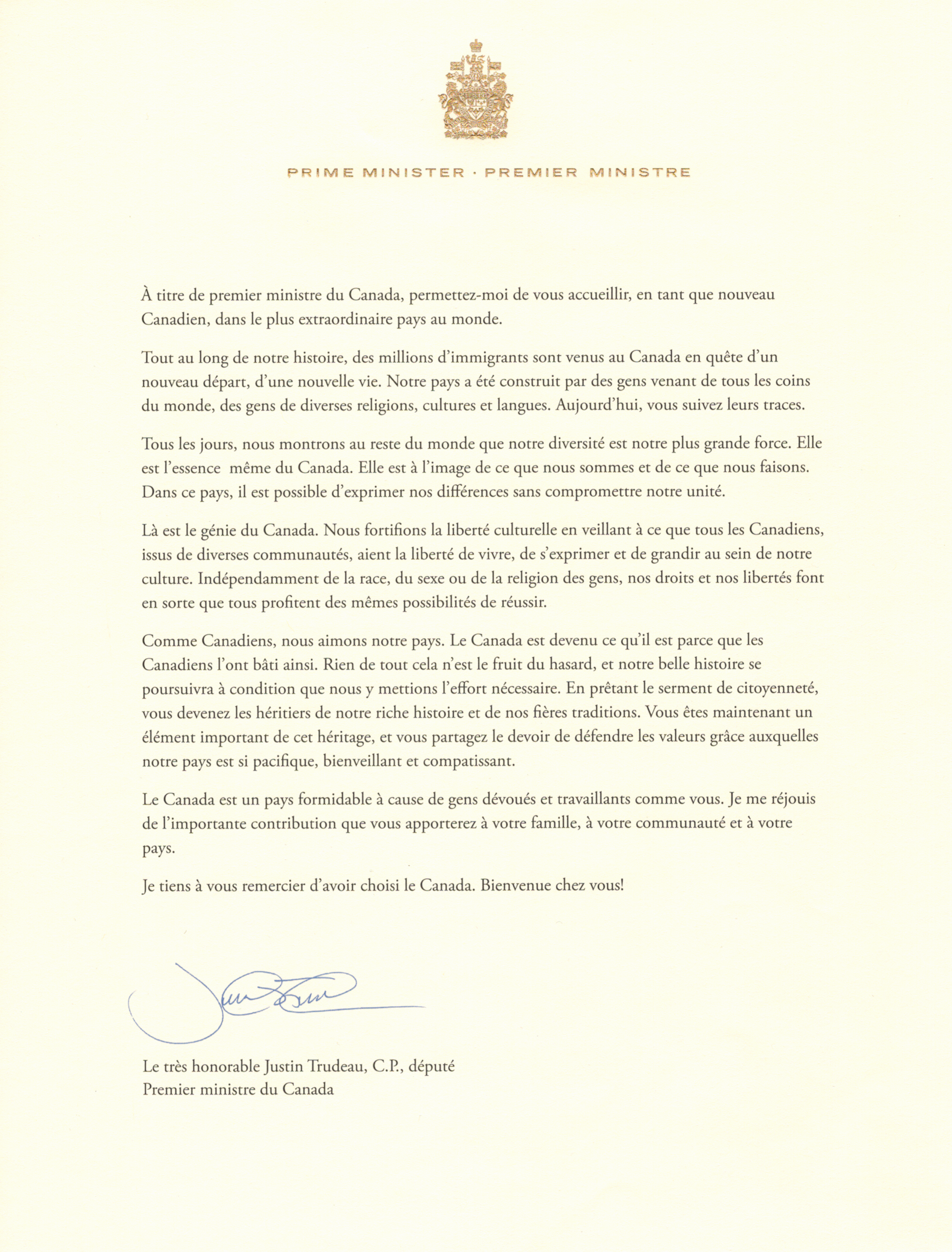 Scanned image of the French version of a letter from Prime Minister Justin Trudeau to new Canadian citizens. The letter was attached to the certificate of citizenship issued to naturalized individuals during a citizenship ceremony held in 2018.